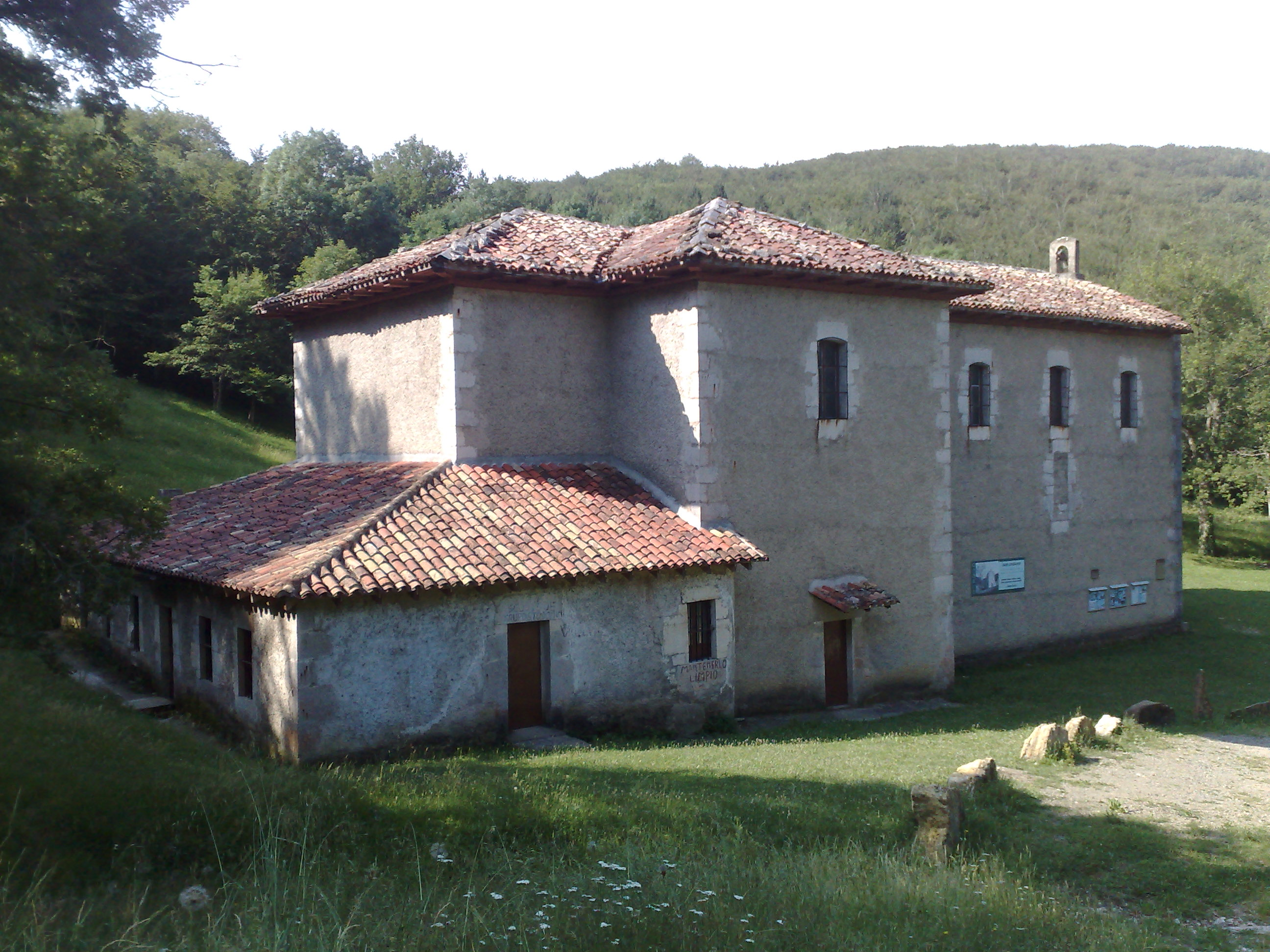 Hermitage of San Urbano, Gaskue, Odieta, Navarre, Basque Country. Meeting place of all the valley of Odieta.